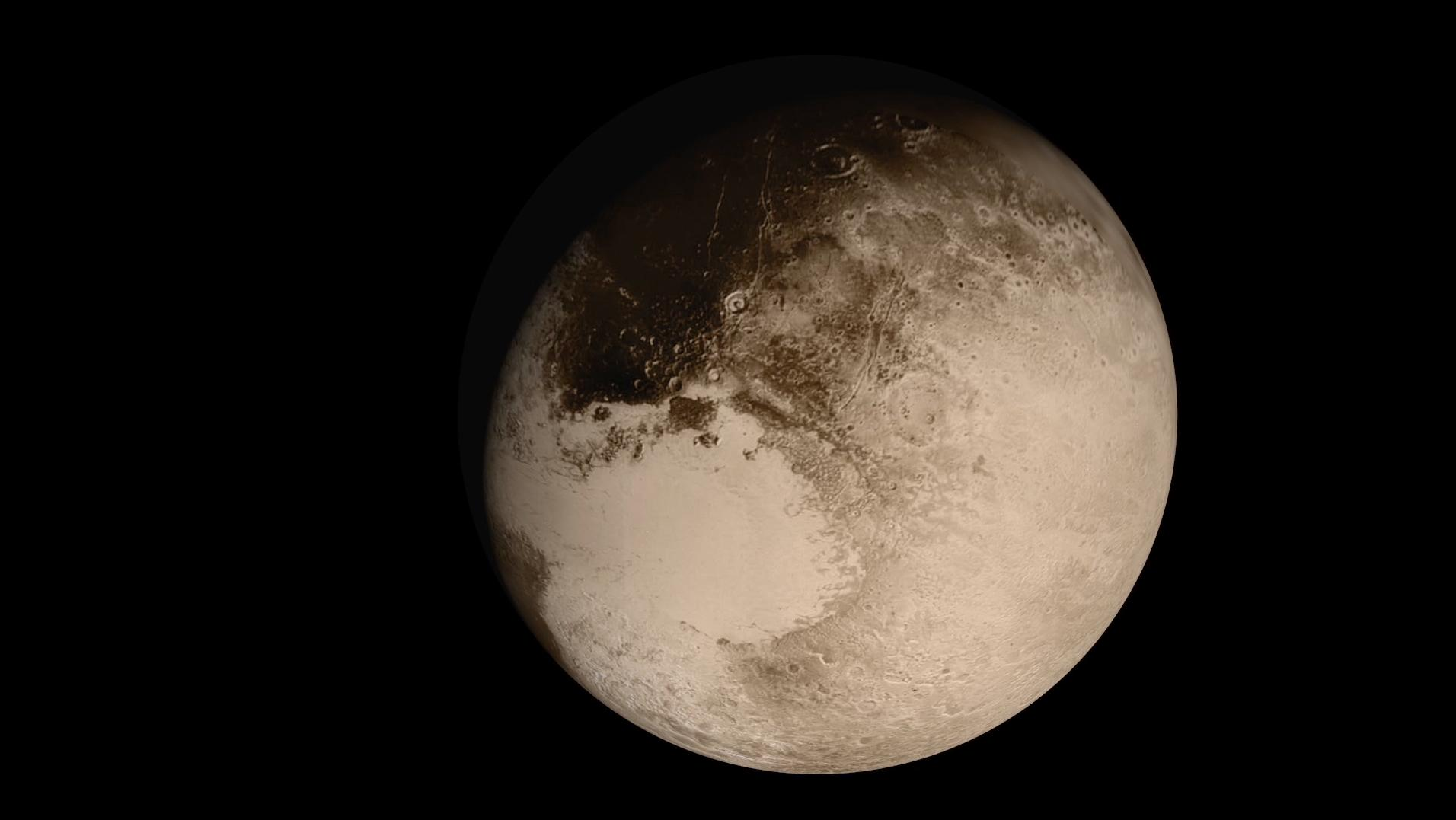 PIA19873: Flying Past Pluto (Animation) IMAGE: ANIMATION: This dramatic view of the Pluto system is as NASA's New Horizons spacecraft saw it in July 2015. The animation, made with real images taken by New Horizons, begins with Pluto flying in for its close-up on July 14, 2015; we then pass behind Pluto and see the atmosphere glow in sunlight before the sun passes behind Pluto's largest moon, Charon. The movie ends with New Horizons' departure, looking back on each body as thin crescents. The Johns Hopkins University Applied Physics Laboratory in Laurel, Maryland, designed, built, and operates the New Horizons spacecraft, and manages the mission for NASA's Science Mission Directorate. The Southwest Research Institute, based in San Antonio, leads the science team, payload operations and encounter science planning. New Horizons is part of the New Frontiers Program managed by NASA's Marshall Space Flight Center in Huntsville, Alabama.